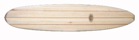 A longboard from Riley Classic Balsa Surfboards, available in sizes from 240-360 cm (8-12 ft). The picture was taken on Oct. 2nd 2007. This picture should appear in the balsa surfboards article. by Balsalover